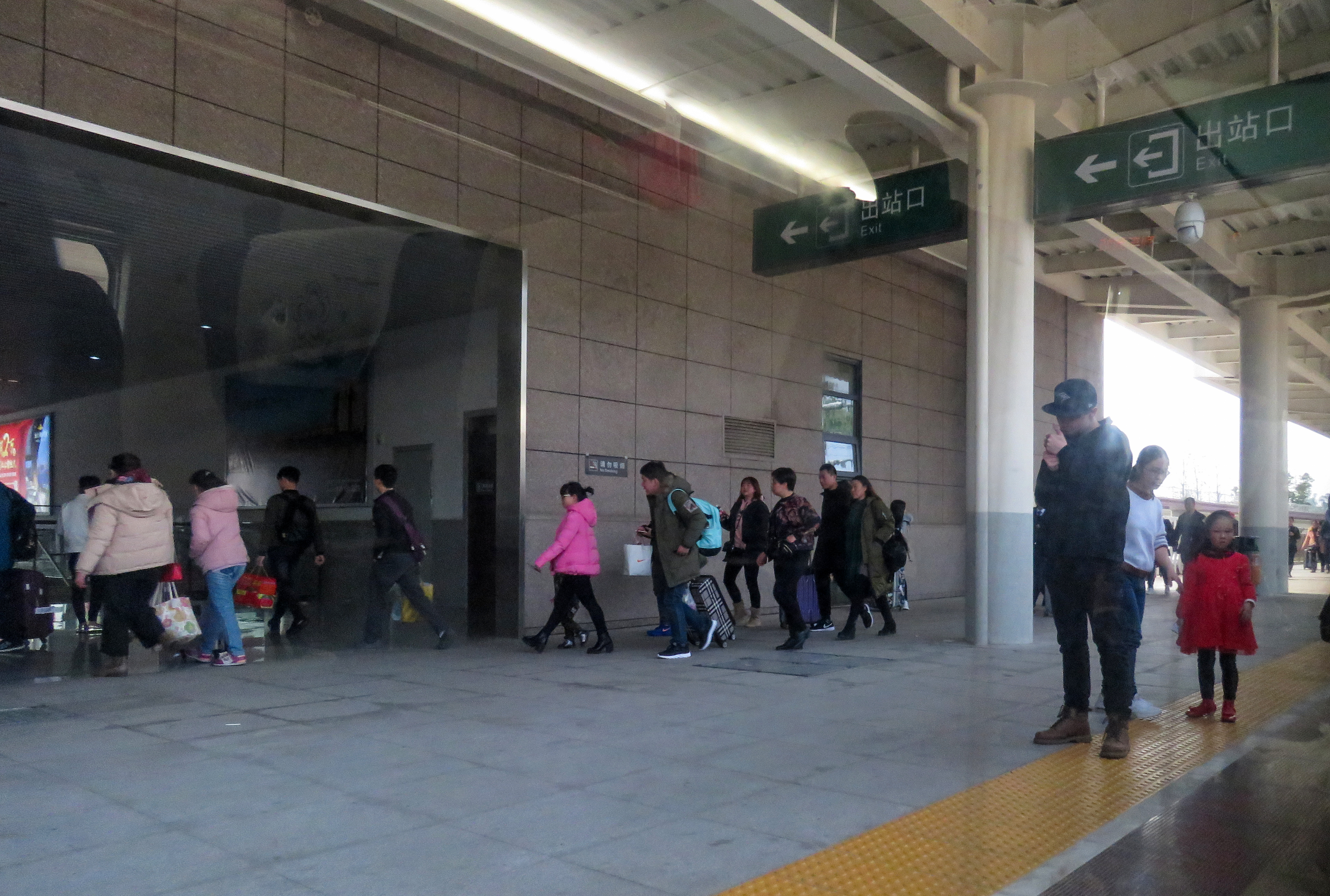 Unable to get out... If I travel alone, I would rather bring a stool!